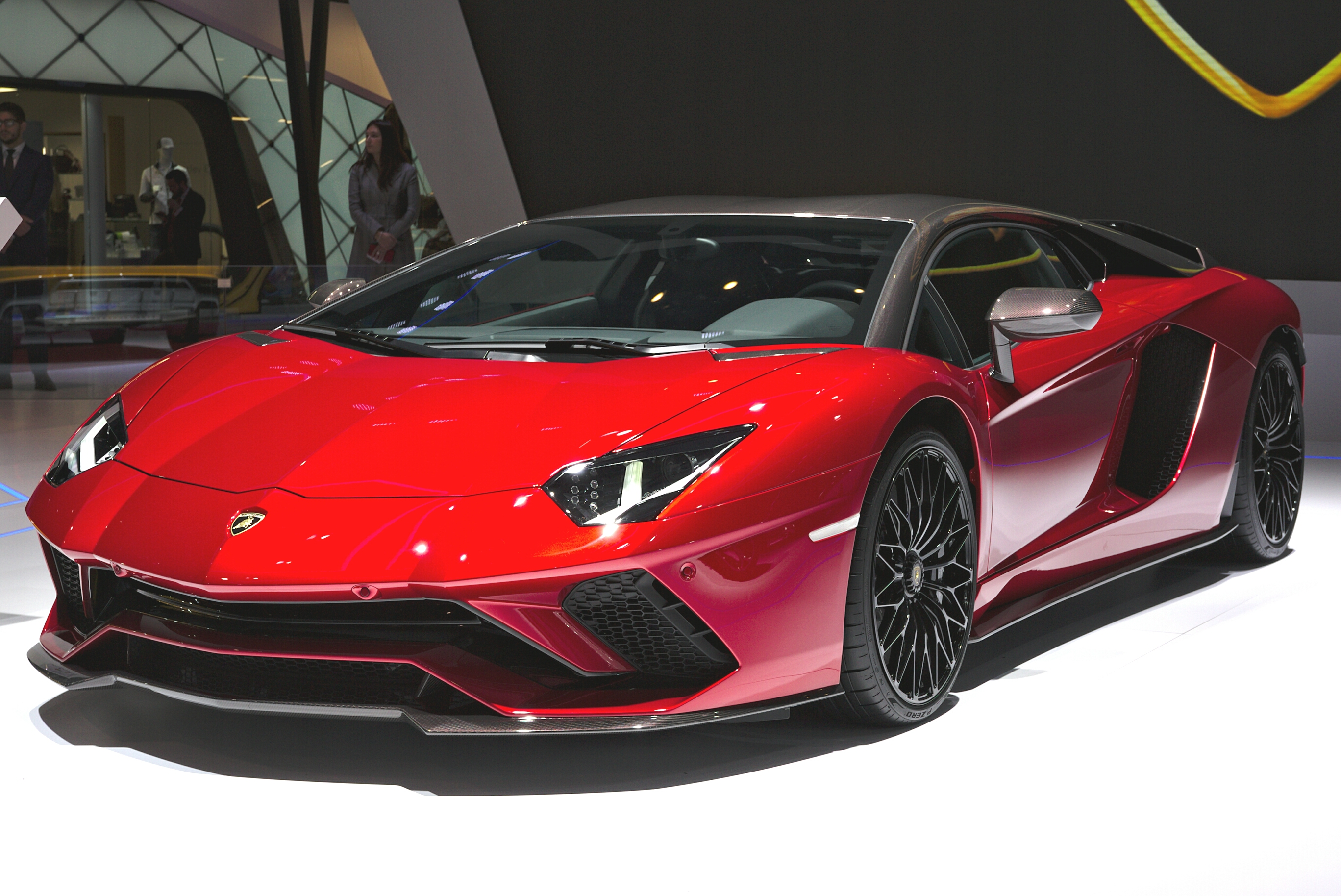 Lamborghini Aventador at Geneva Motorshow 2018